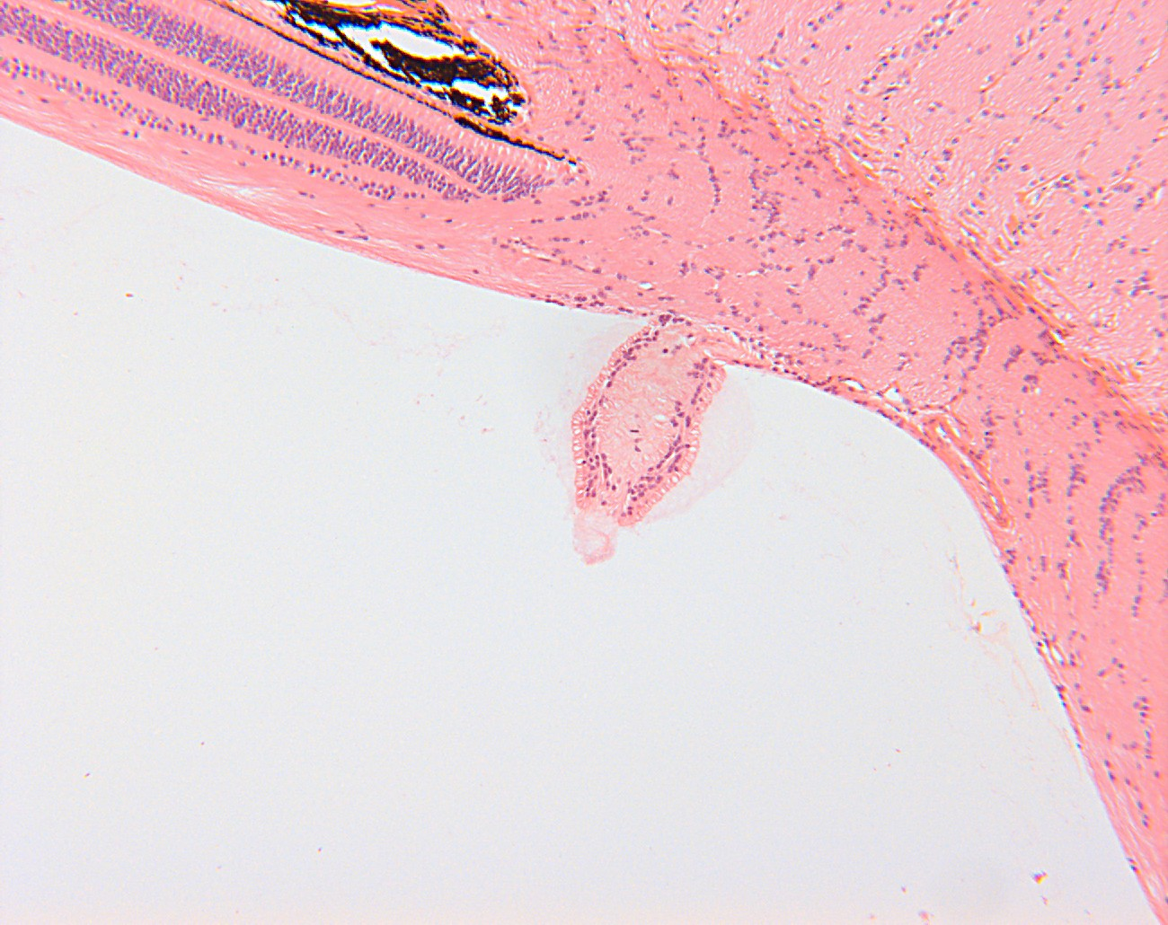 Bergmeister's papilla, arising from the optic disc. Histological section, haematoxylin and eosin stain.